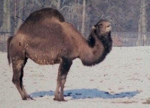 Bactrian Camel, Whipsnade In thick dark winter coat, and faking it to look like it only has one hump!